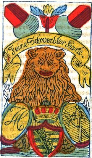 The Deuce of Acorns from a Feine Schwerterkarte pack dated c. 1820s from an illustration in: Rümpler, Susanna (1828) Vier Farben, das heißt die deutschen Spielkarten in ihrer symbolischen Bedeutung beschrieben und erklärt. Taubert’schen Buchhandlung, Leipzig